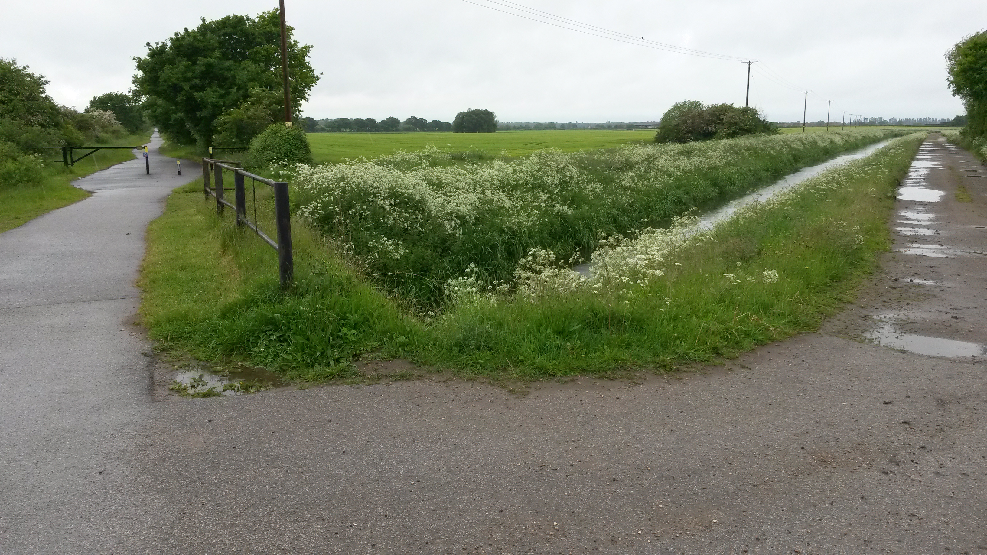 Historic Main Drain in Skellingthorpe, where a Roman antiquity was found.